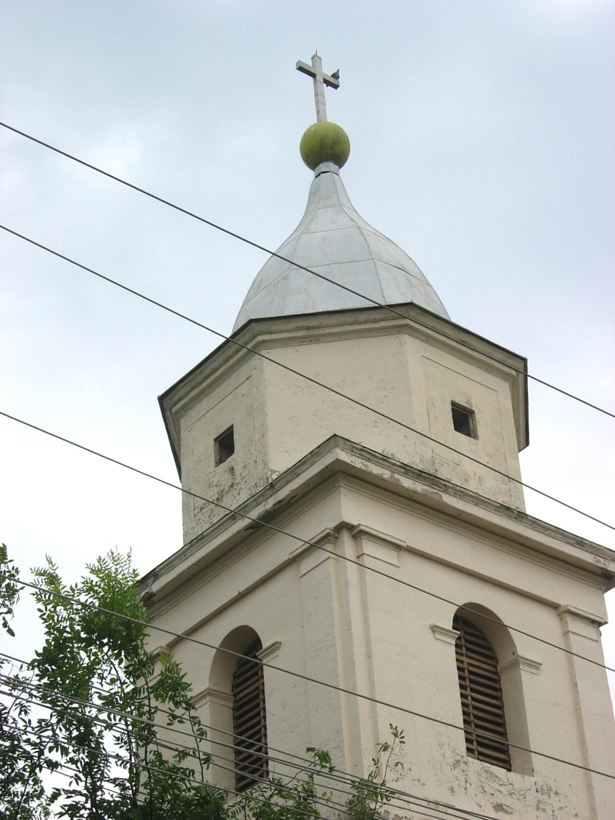 The Holy Trinity Catholic church in Hetin.